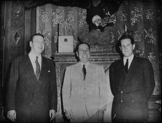 Otto Skorzeny (left) and Peron (center)